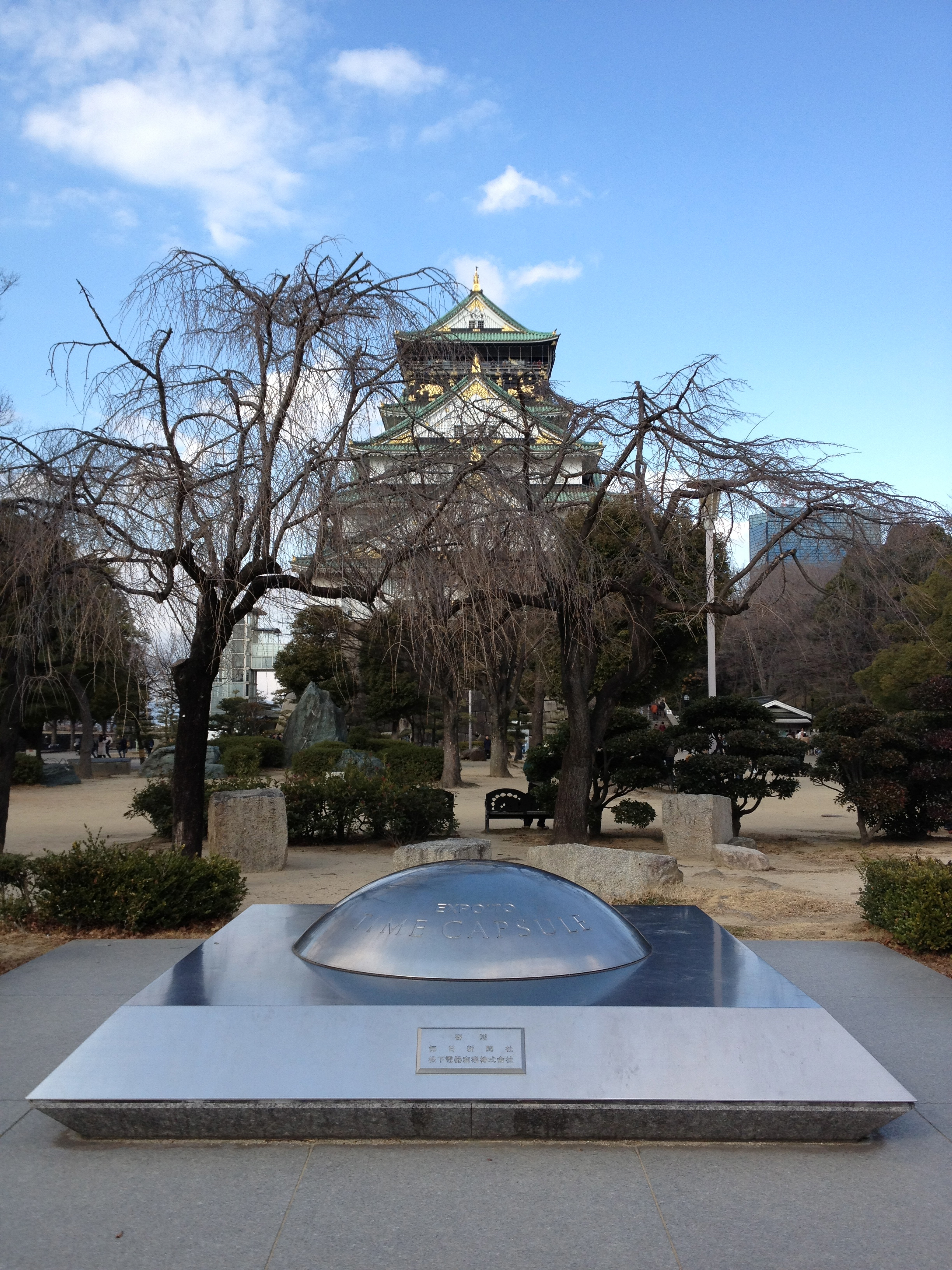 Osaka Time capsule monument